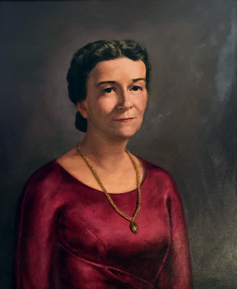 Mary Lindsay Thornton was the first curator of the North Carolina Collection. From portrait hanging in NCC Research Room, Wilson Library.